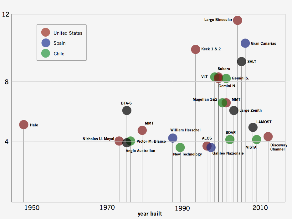 For the largest reflecting telescopes on the planet, the horizontal indicates the year built and the vertical direction indicates the size of the mirror measured in meters. Countries which contain several of these telescopes are color coded for identification.